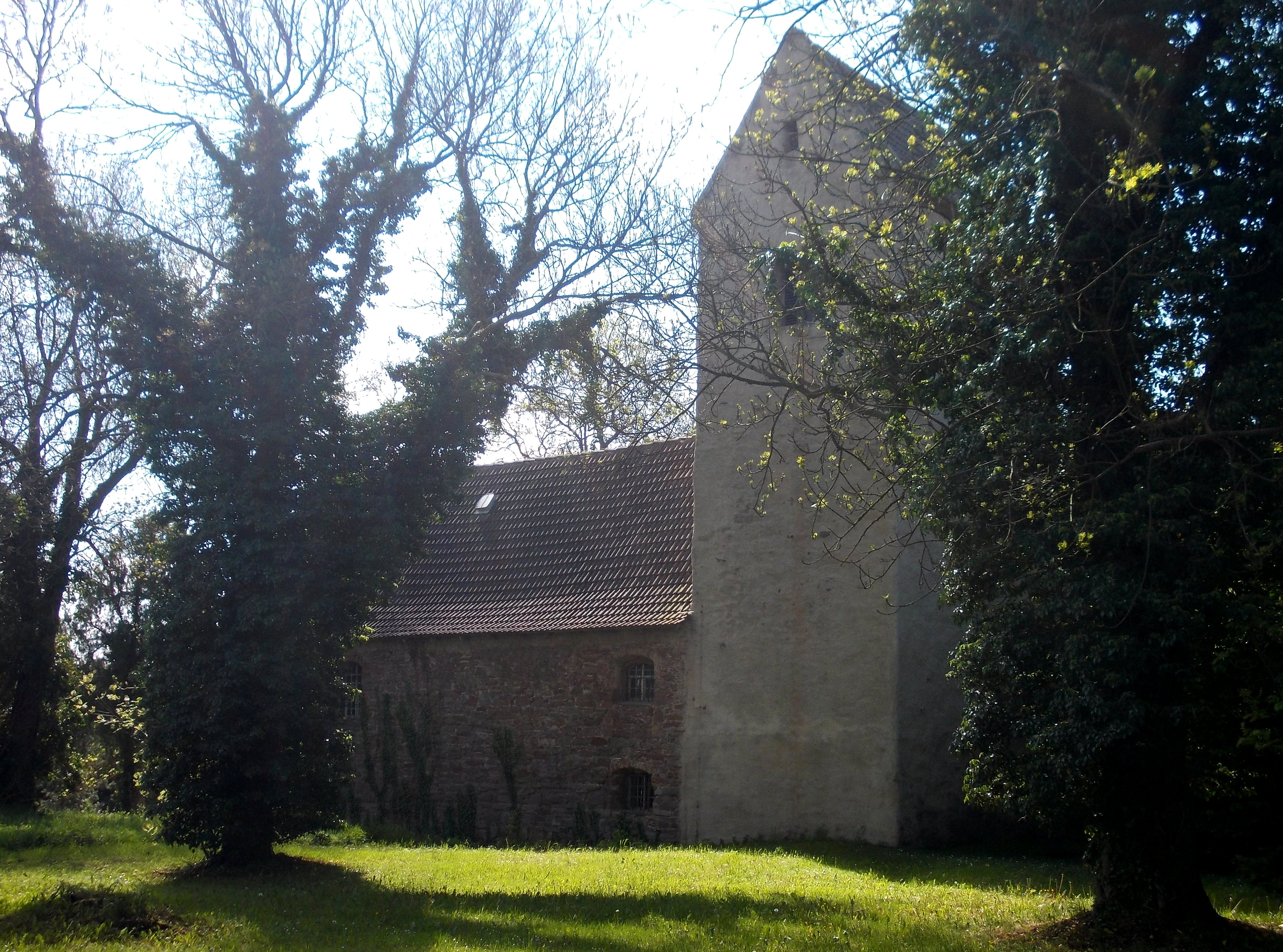 Dössel church (Wettin-Löbejün, district: Saalekreis, Saxony-Anhalt)